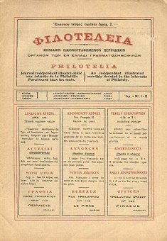 Philotelia journal no. 1-2 cover (The object belongs to the Hellenic Philotelic Society library. The HPS Board has granted the license for its scan to be freely used)